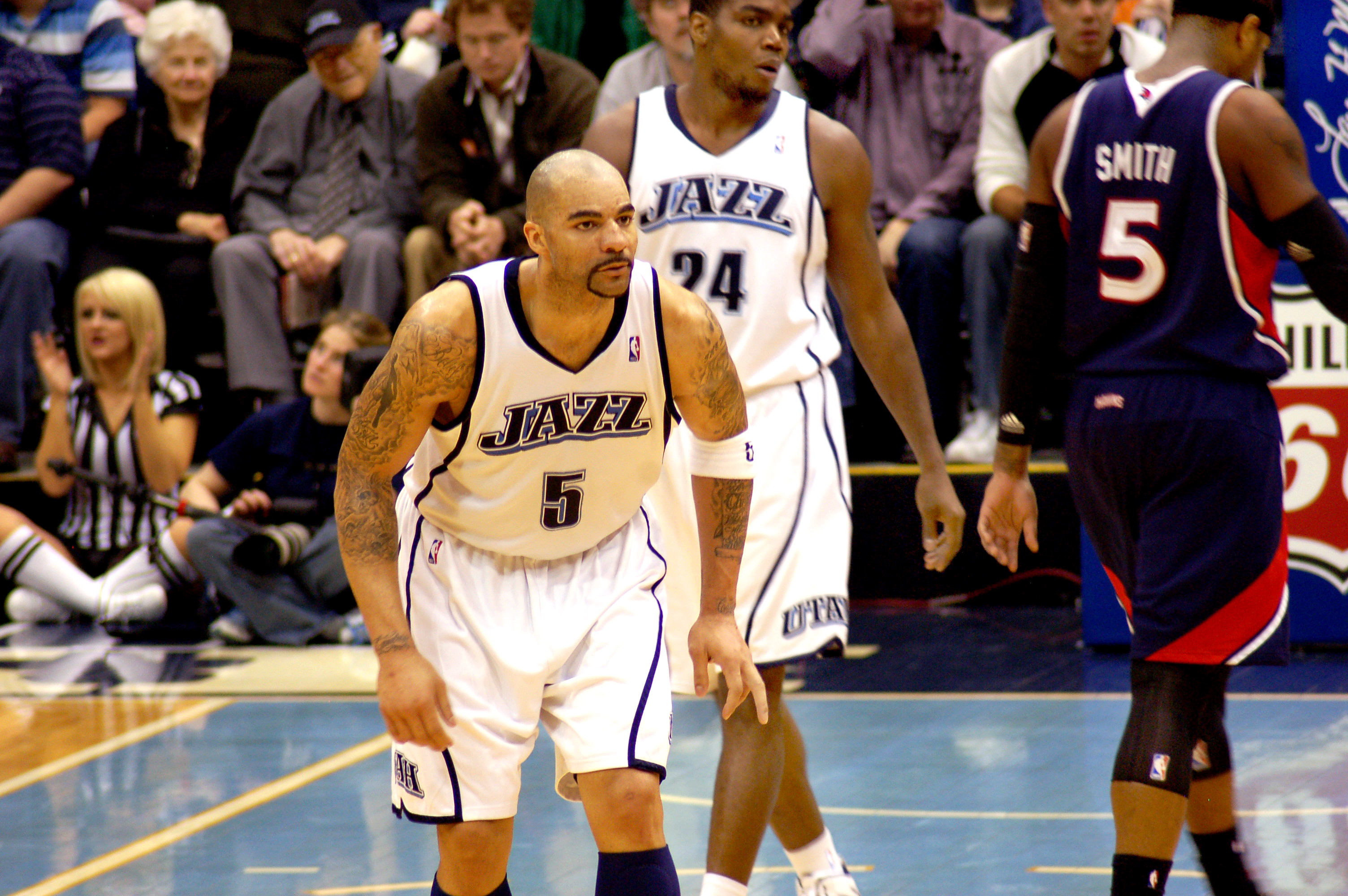 Carlos Boozer, Paul Millsap